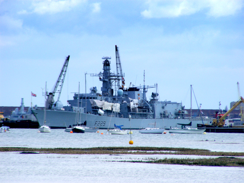 The HMS Lancaster, a Type 23 frigate of the British Royal Navy.